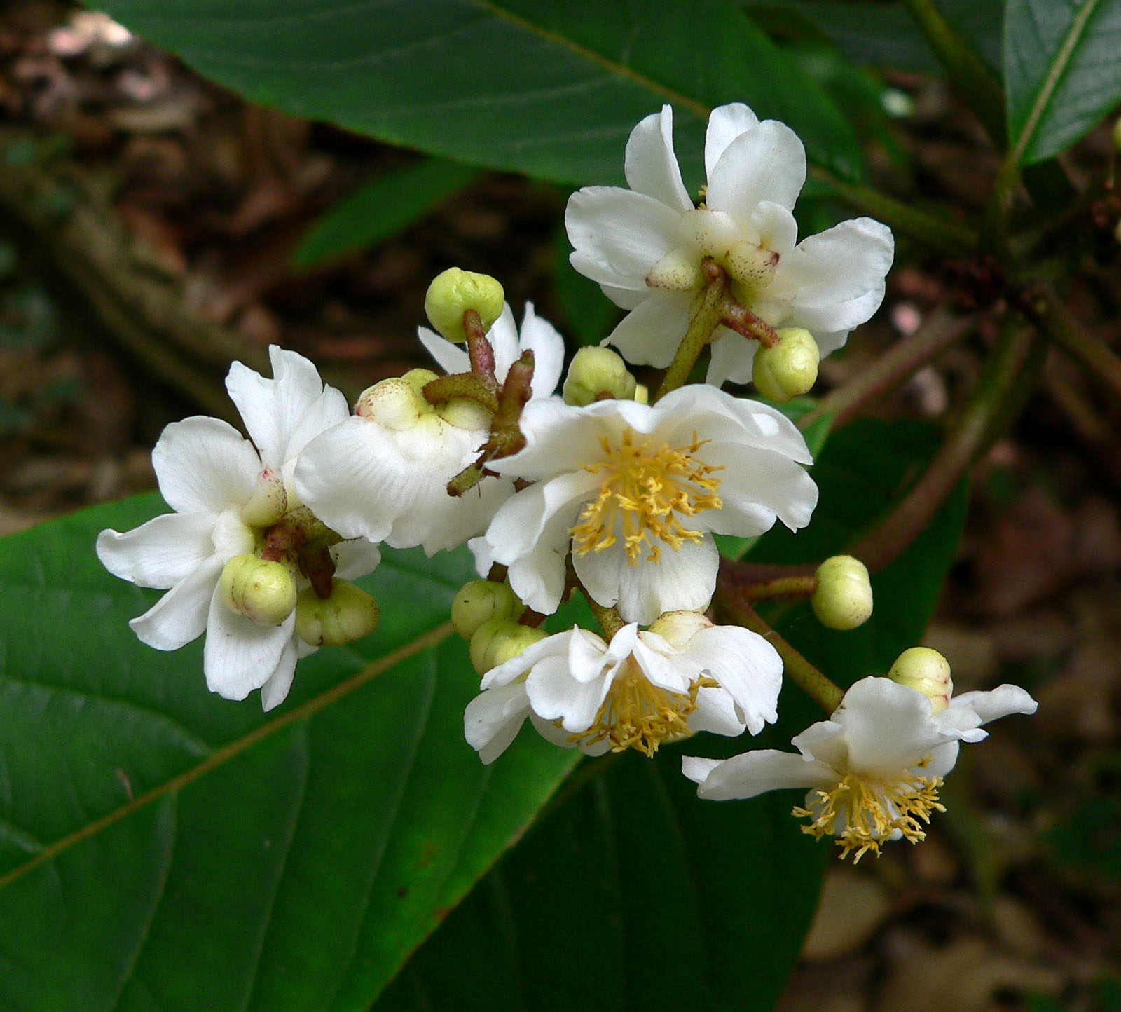 Saurauia zahlbruckneri at the San Francisco Botanical Garden